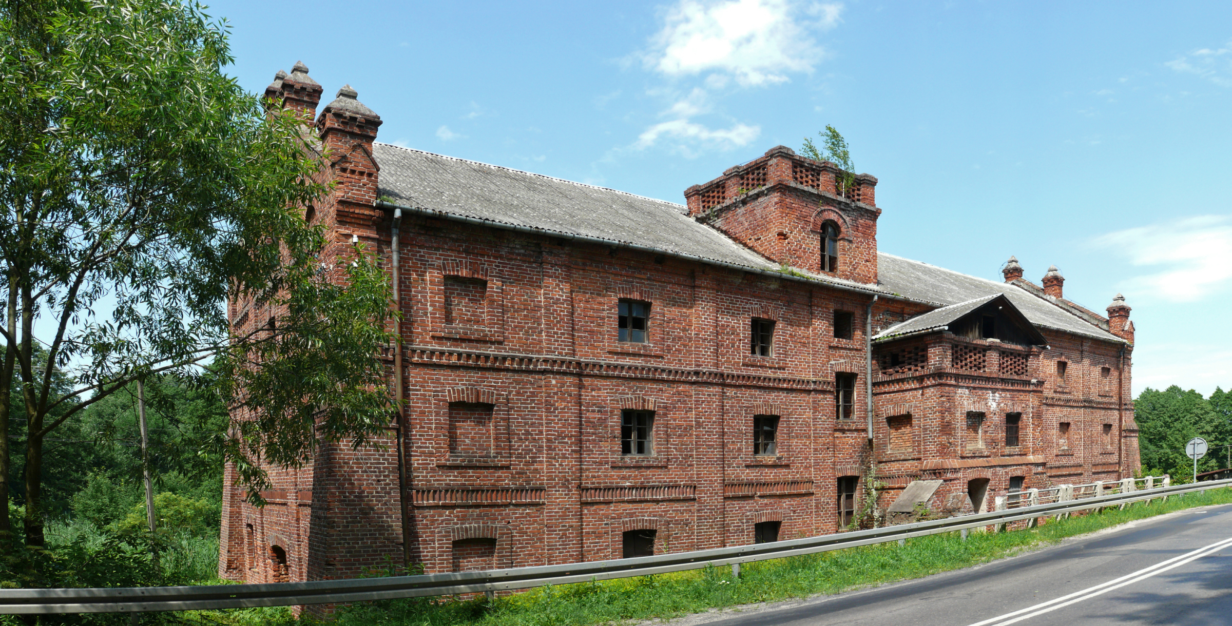 Old mill in Wola Rudzka